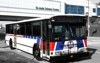 MetroBus passing under the St. Louis Science Center walkway, in St. Louis, MO